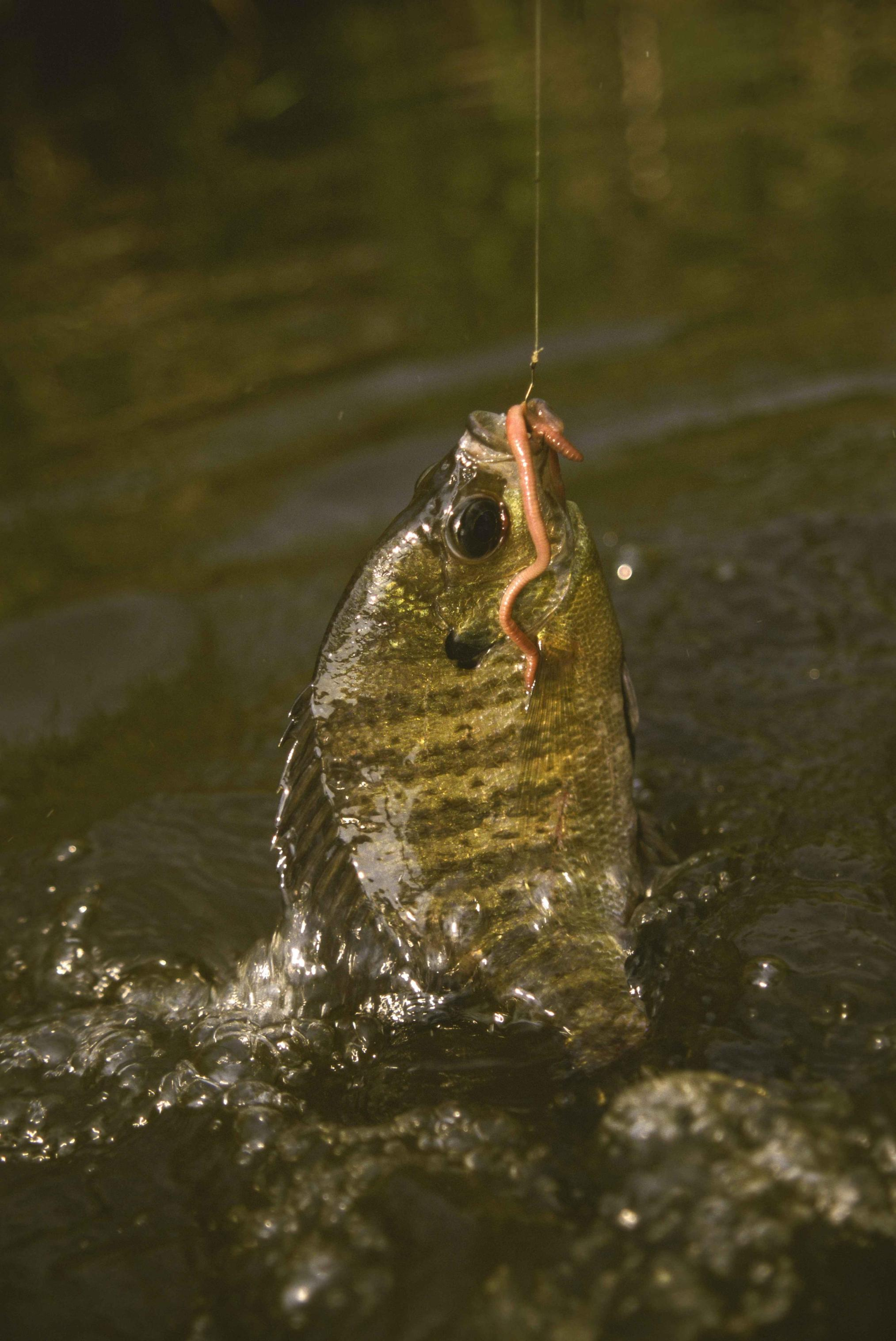 Image title: Bluegill fish caught on a hook using an earthworm lepomis macrochirus Image from Public domain images website